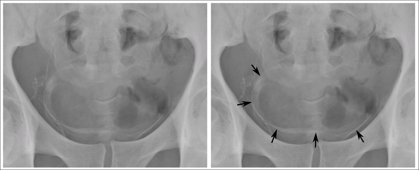 Calcification of the bladder wall on a plain x-ray image of the pelvis, in a sub-Saharan man of 44 years old. This is due to urinary schistosomiasis.